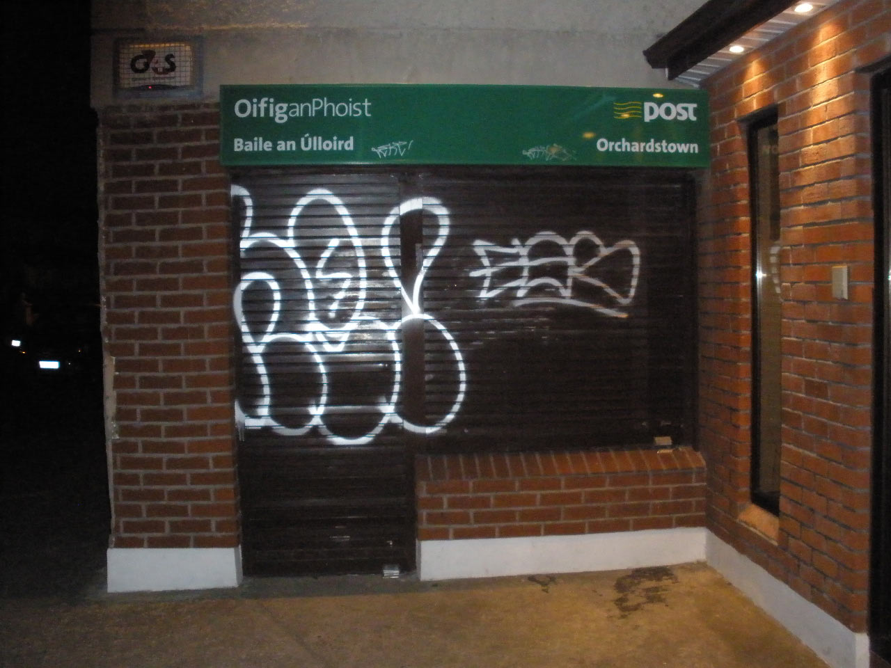 Orchardstown post office on Marian Road in Ballyroan, Dublin.